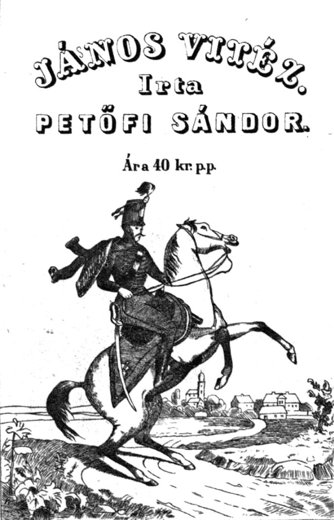 Front cover of the first edition of Sándor Petőfi's poem "János Vitéz" (drawing: Soma Orlai Petrich)